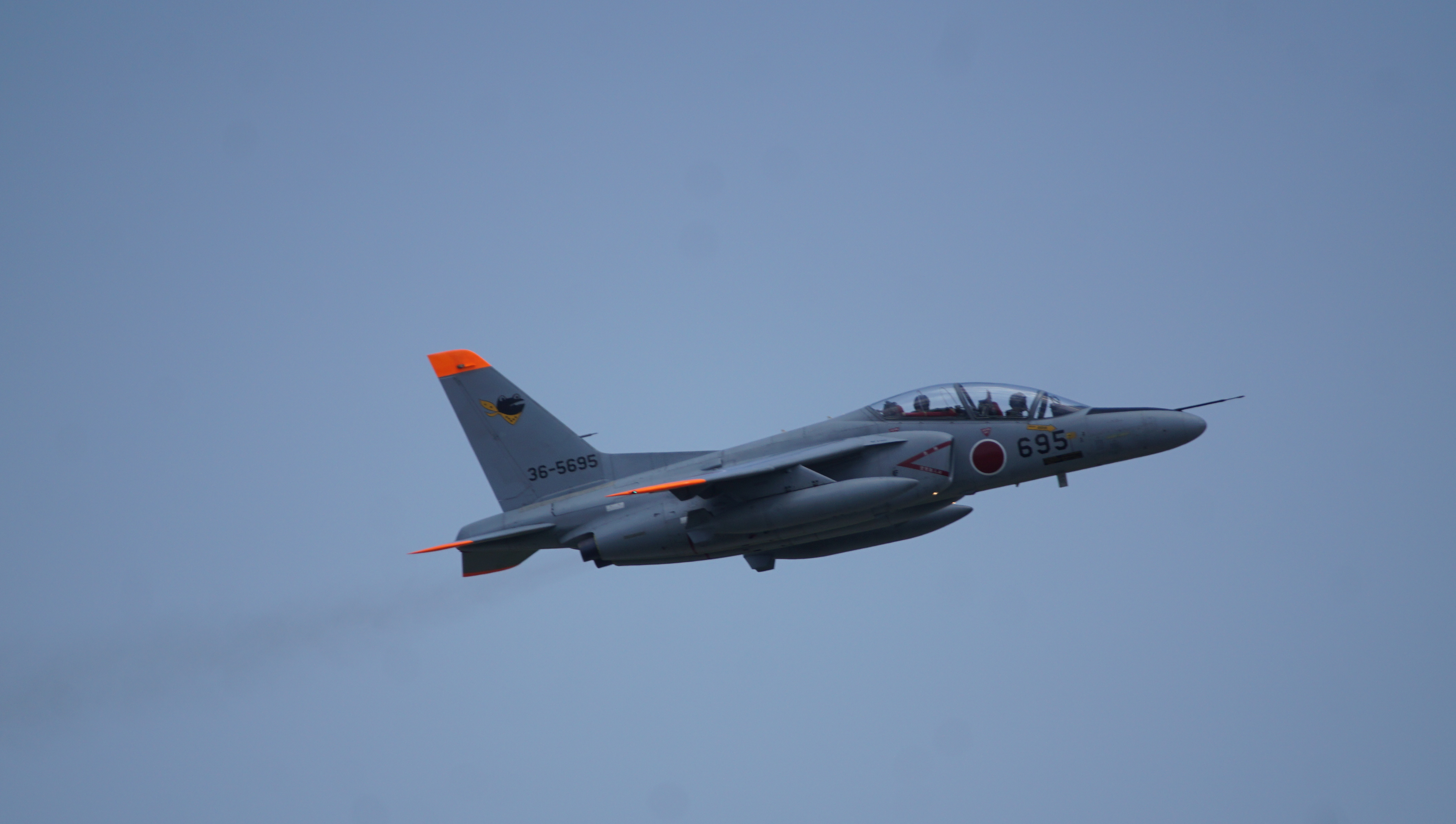 Kawasaki T-4 36-5695 of the 301st Tactical Fighter Squadron flies over Hyakuri Airbase in June 2017 during regular training.